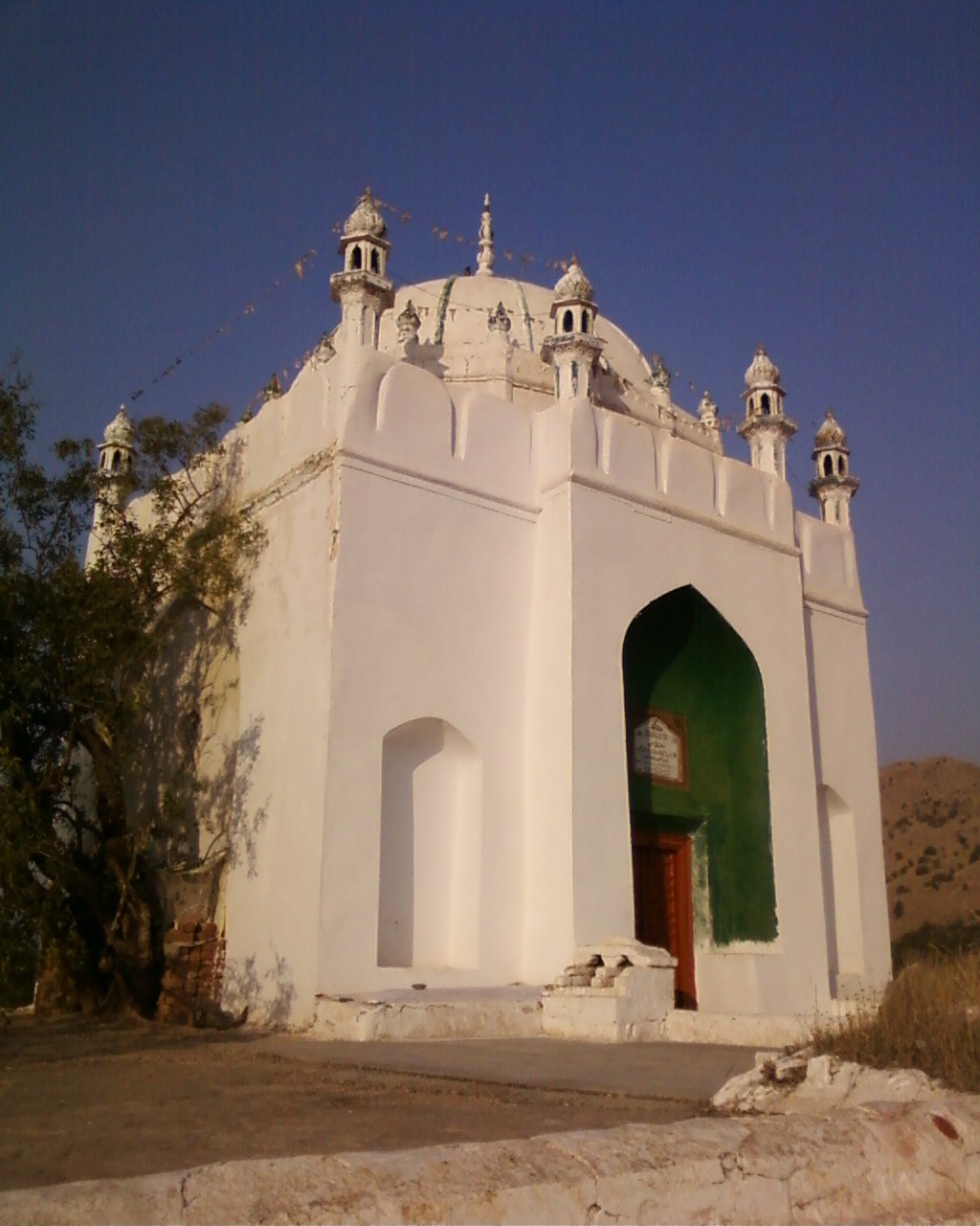 Tomb of(Pir Mian Gee Gul Baba Showaki Sharif Kohat K.P.K )